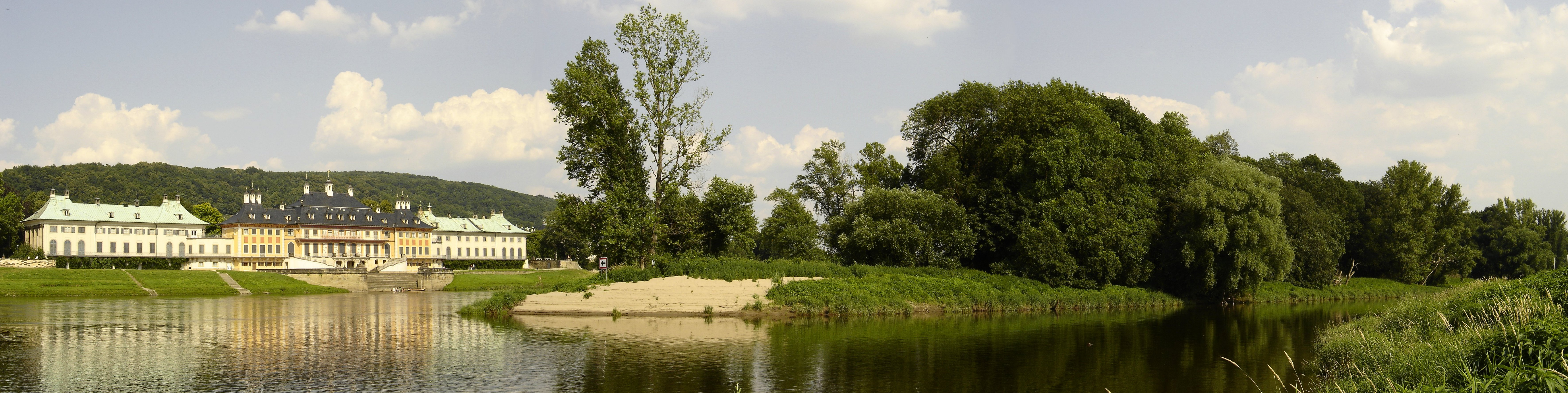 Panorama of the Schloss Pillnitz in Dresden and the Elbe island at Kleinzschachwitz